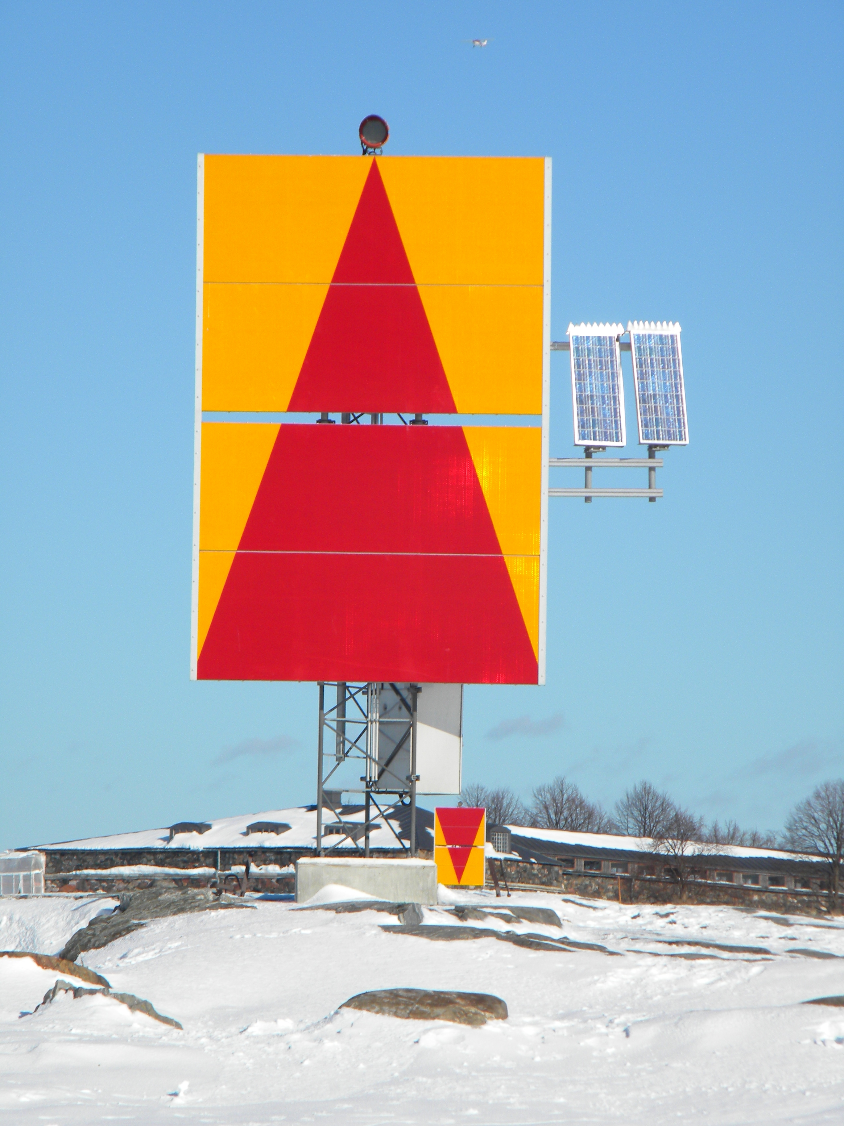 A leading light - a maritime landmark. Two lights in line create a leading line (a firm line is a fairway). Solar panels are used to create power for the light.